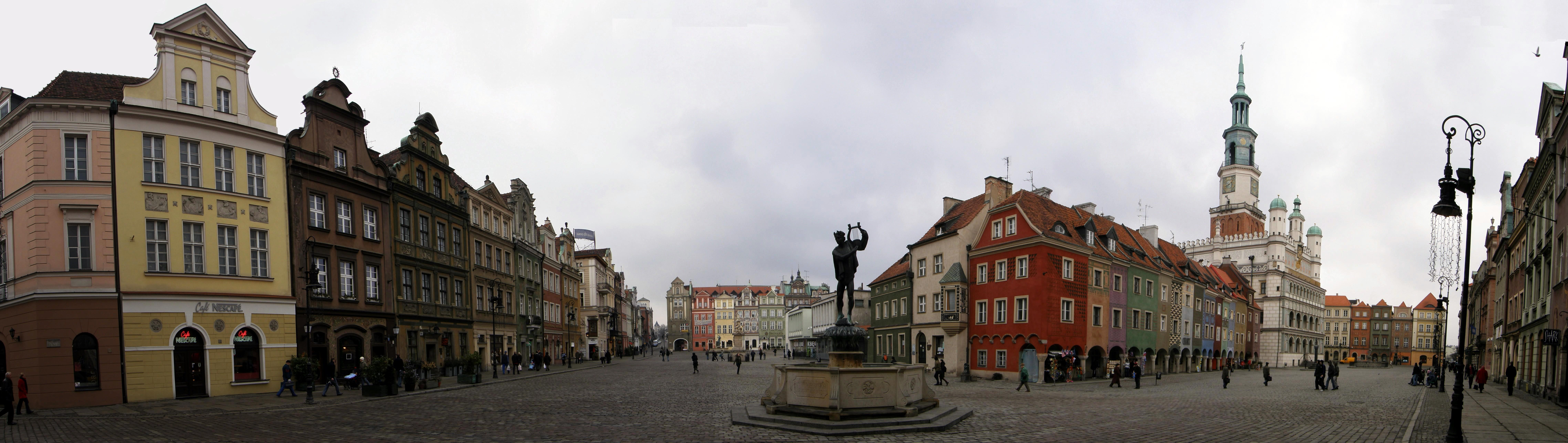 Old Market Square in Poznan, view from south-east corner